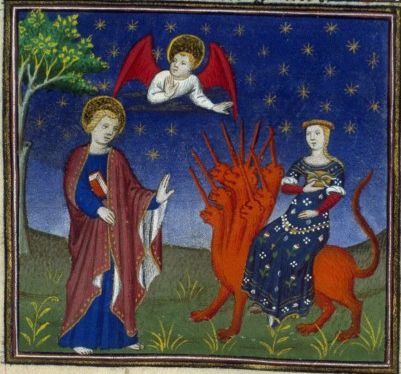 Whore of Babylon (french illuminated "Book of Revelation")